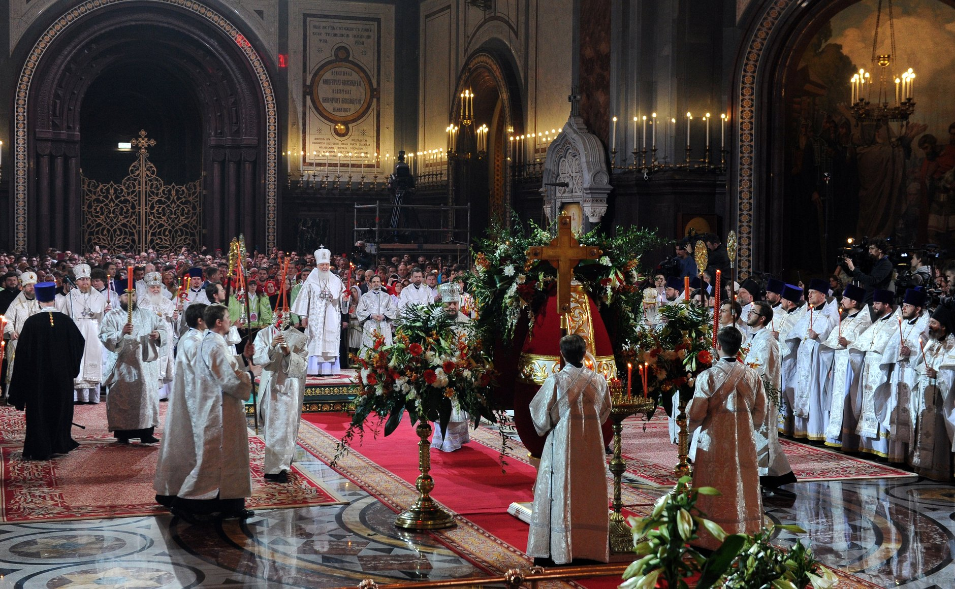 Easter service in the Cathedral of Christ the Saviour in Moscow, Russia, 2016-05-01